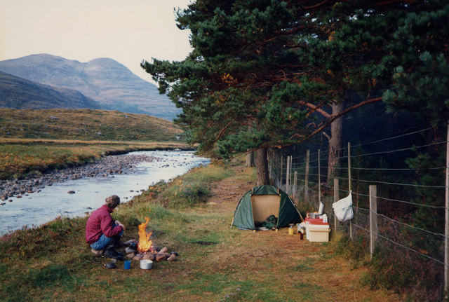 Wild camping by the River Torridon.